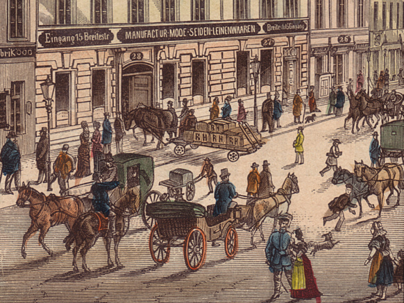 Berlin, Mitte: Brüderstraße in the 19th century with a part of the Rudolph Hertzog department store, detail.